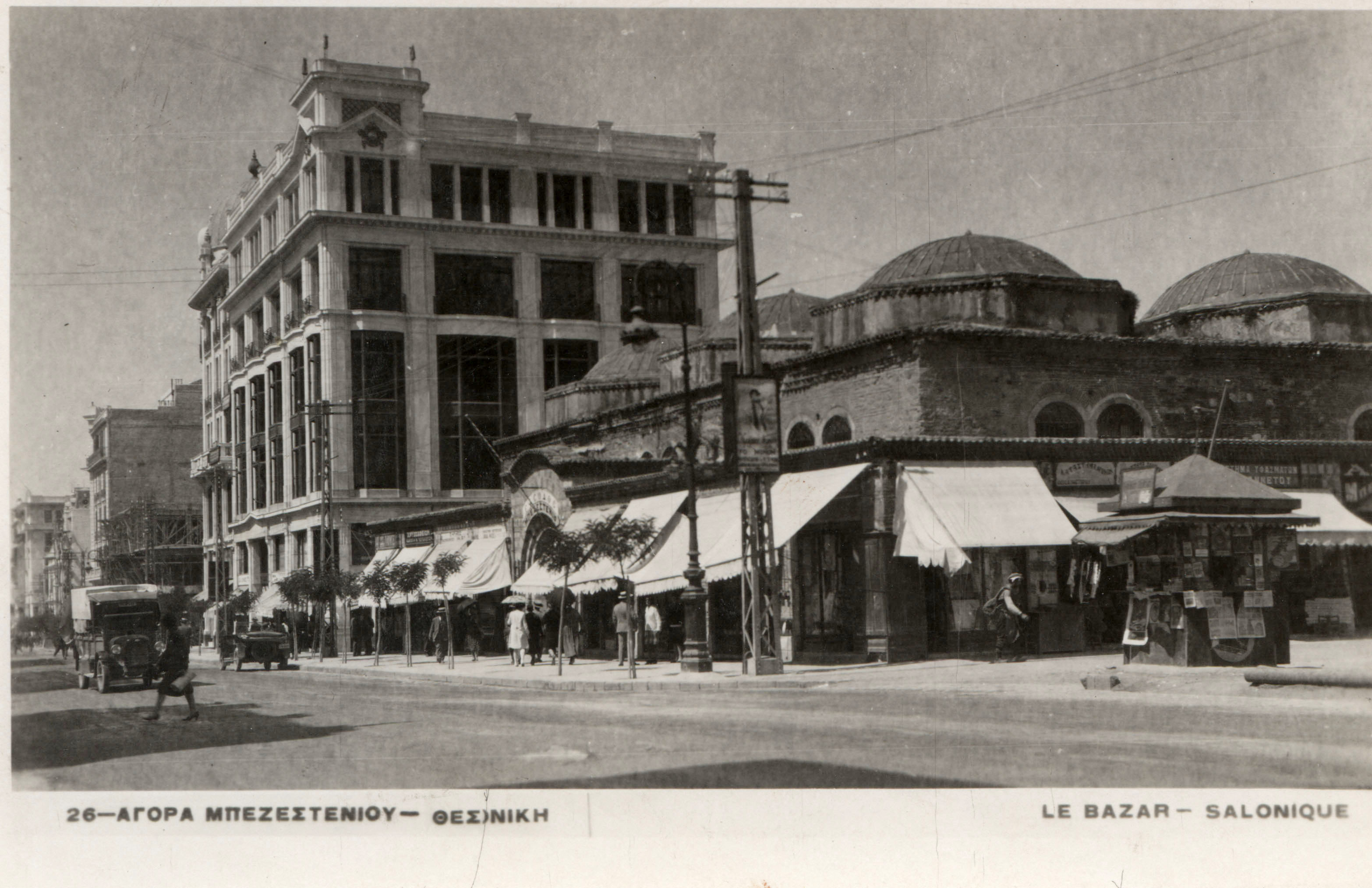 1925-30 Carte Postale of ezesteni Market (Thessaloniki, Greece).